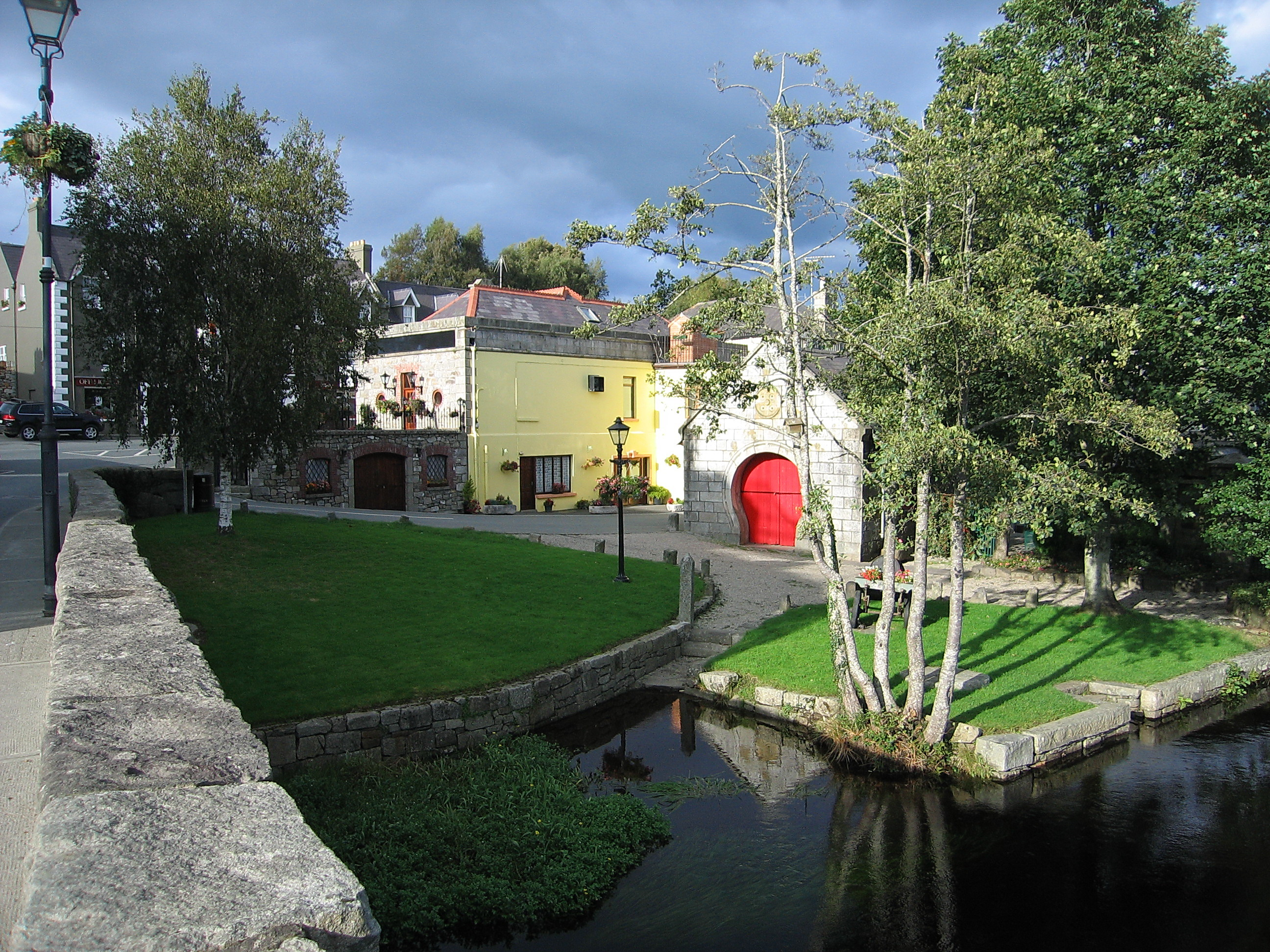 Aughrim, County Wicklow (Sarah777 13:58, 2 January 2007 (UTC))